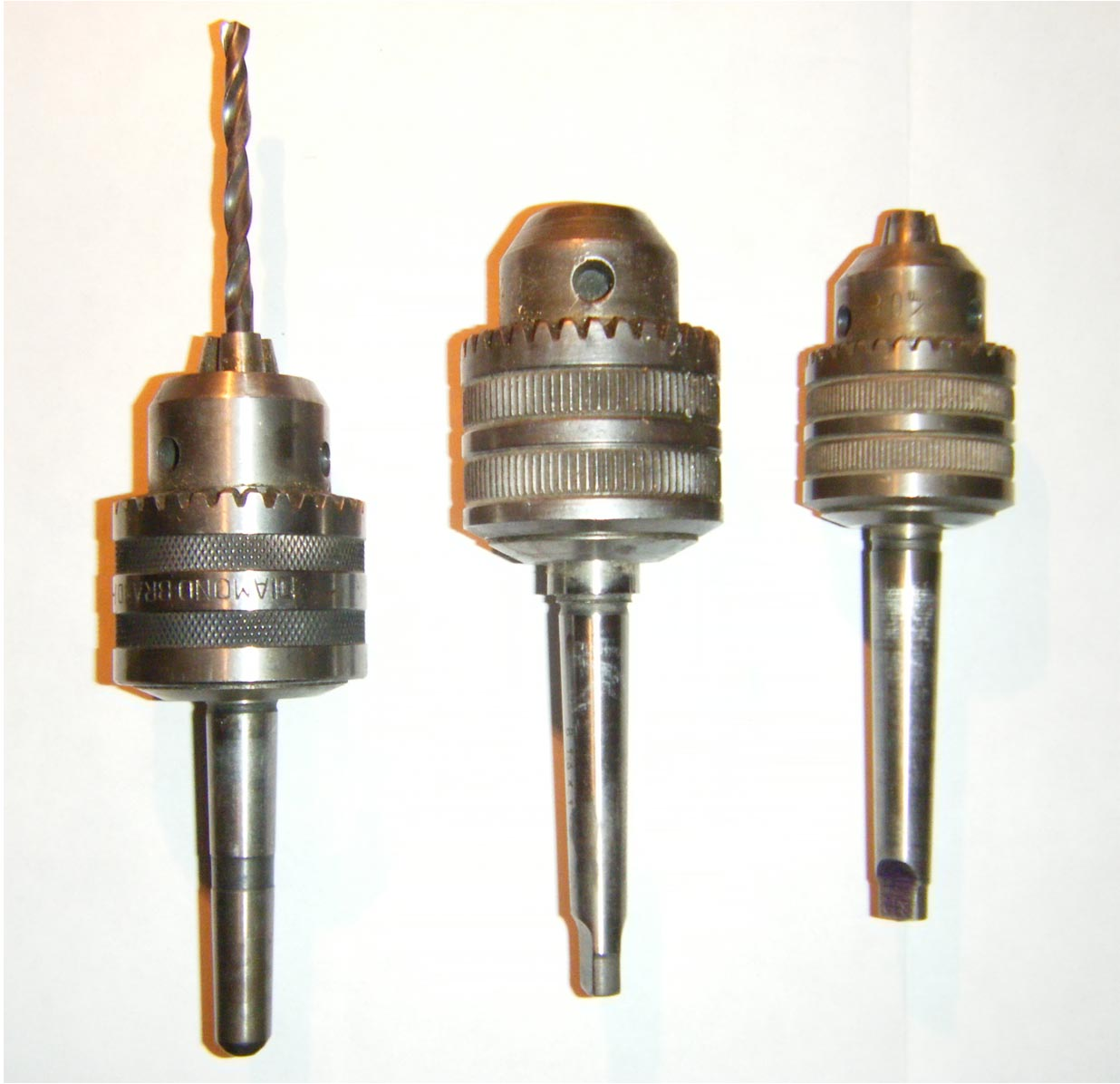 Drills with Morse cone